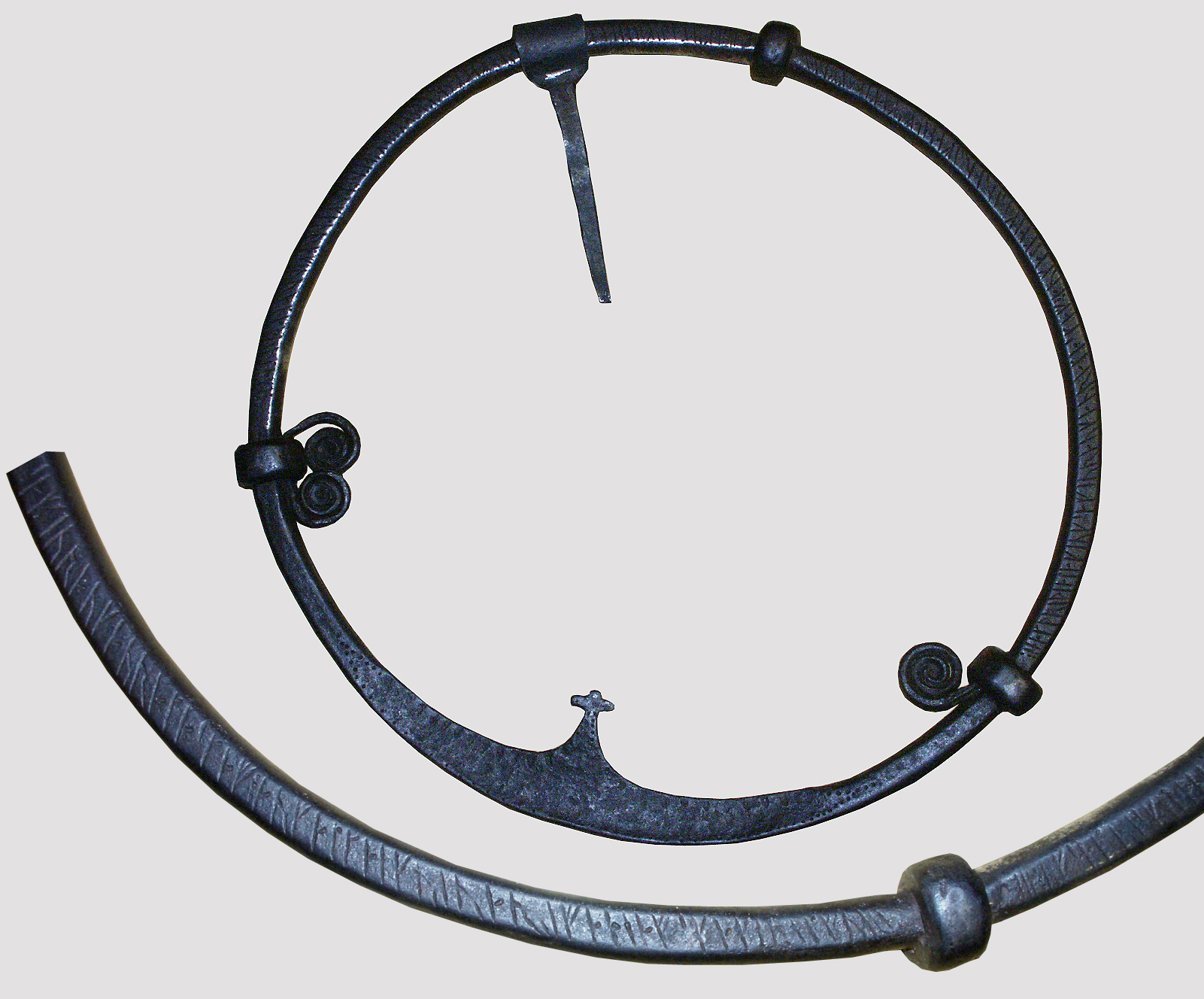 The ring from Forsa in the landscape of Hälsingland, northern Sweden. The ring from 9th century, has runes. Hs 7 (Hälsinglands runinskrifter 7).